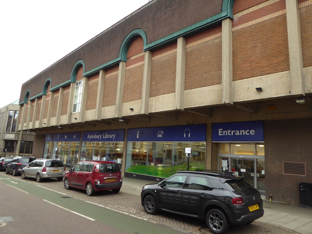 Visited by members of the Libraries Taskforce team. Photo credit: Julia Chandler/Libraries Taskforce